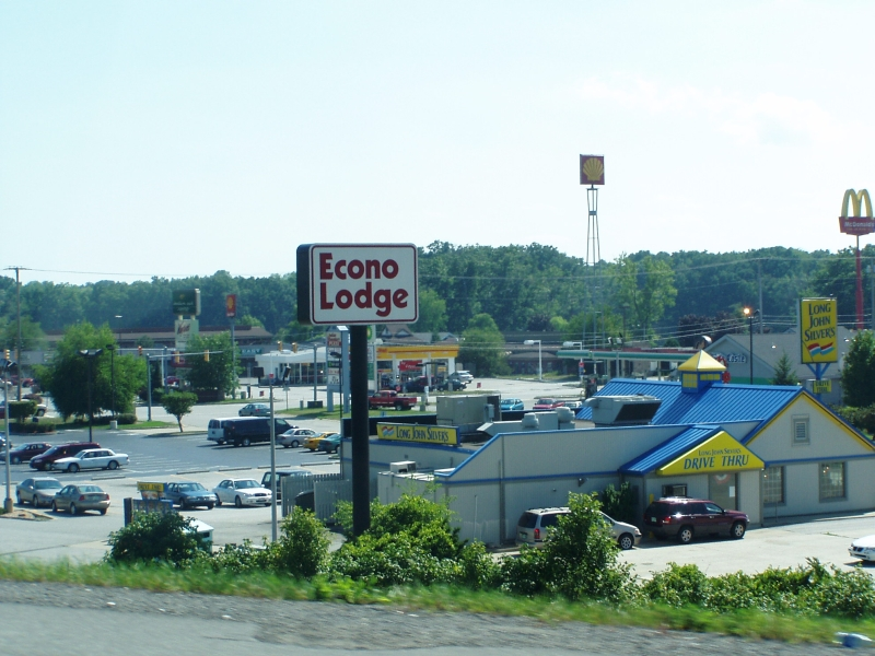 Indian Boundary Road south of the junction of S.R. 49 and I-94